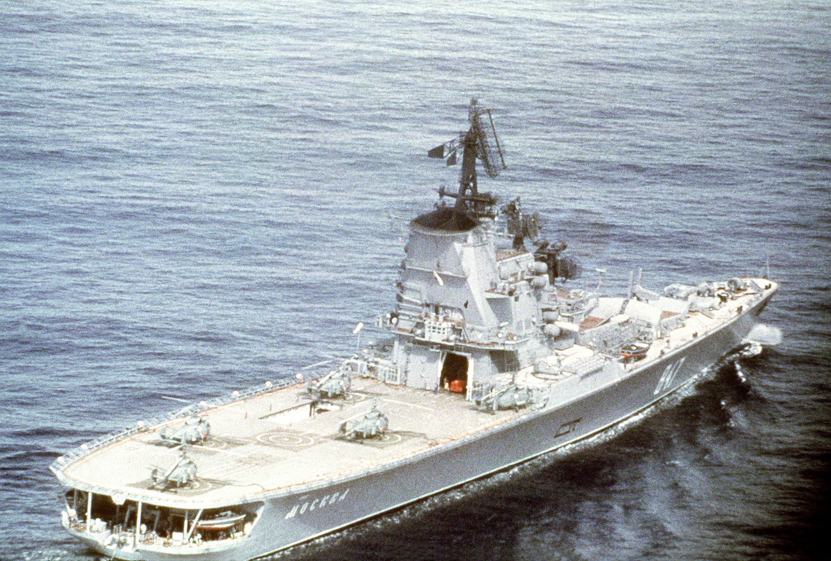 A starboard quarter view of the Soviet helicopter cruiser Moskva underway.